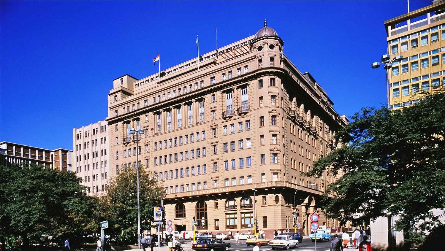 This media shows a South African Protected Site with SAHRA file reference 0000000000.